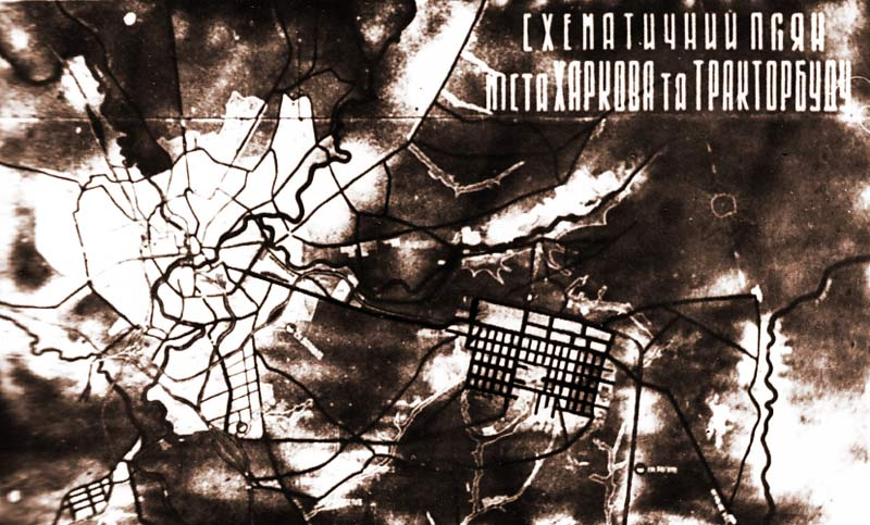 Schematic plan of Kharkiv and KhTZ village